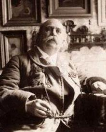 Léon Dierx (1838 - 1912) - French poet from the island of La Réunion. Photo by Paul Marsan dit Dornac.